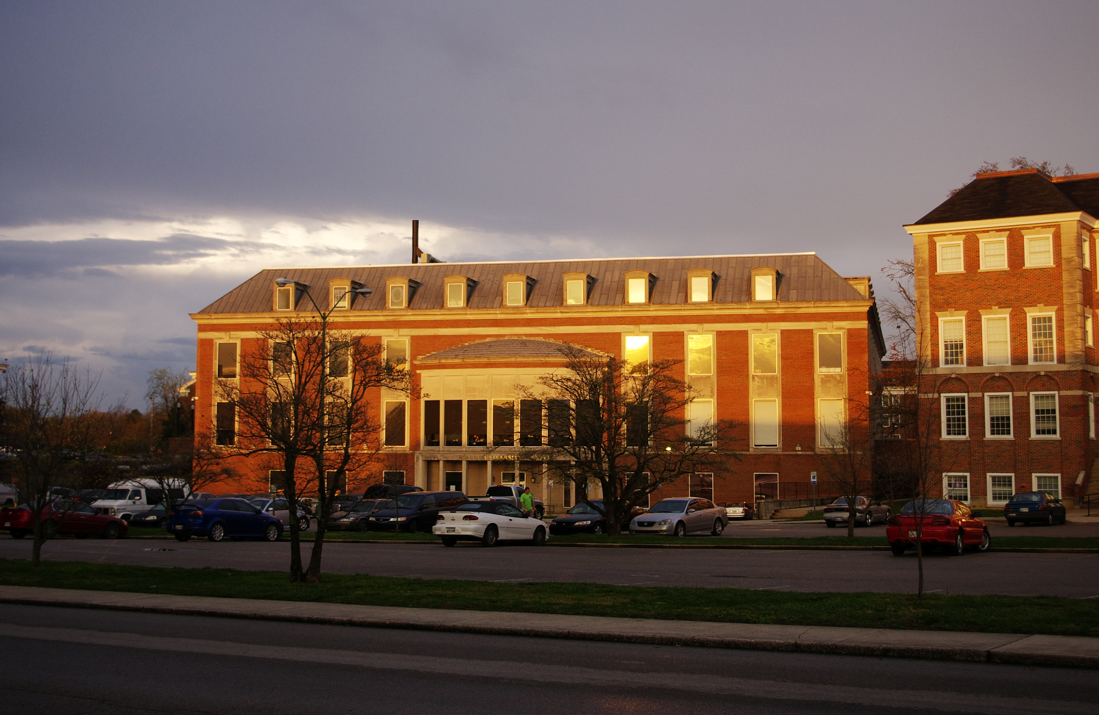 The Roaden University Center on the campus of Tennessee Technological University in Cookeville, Tennessee.